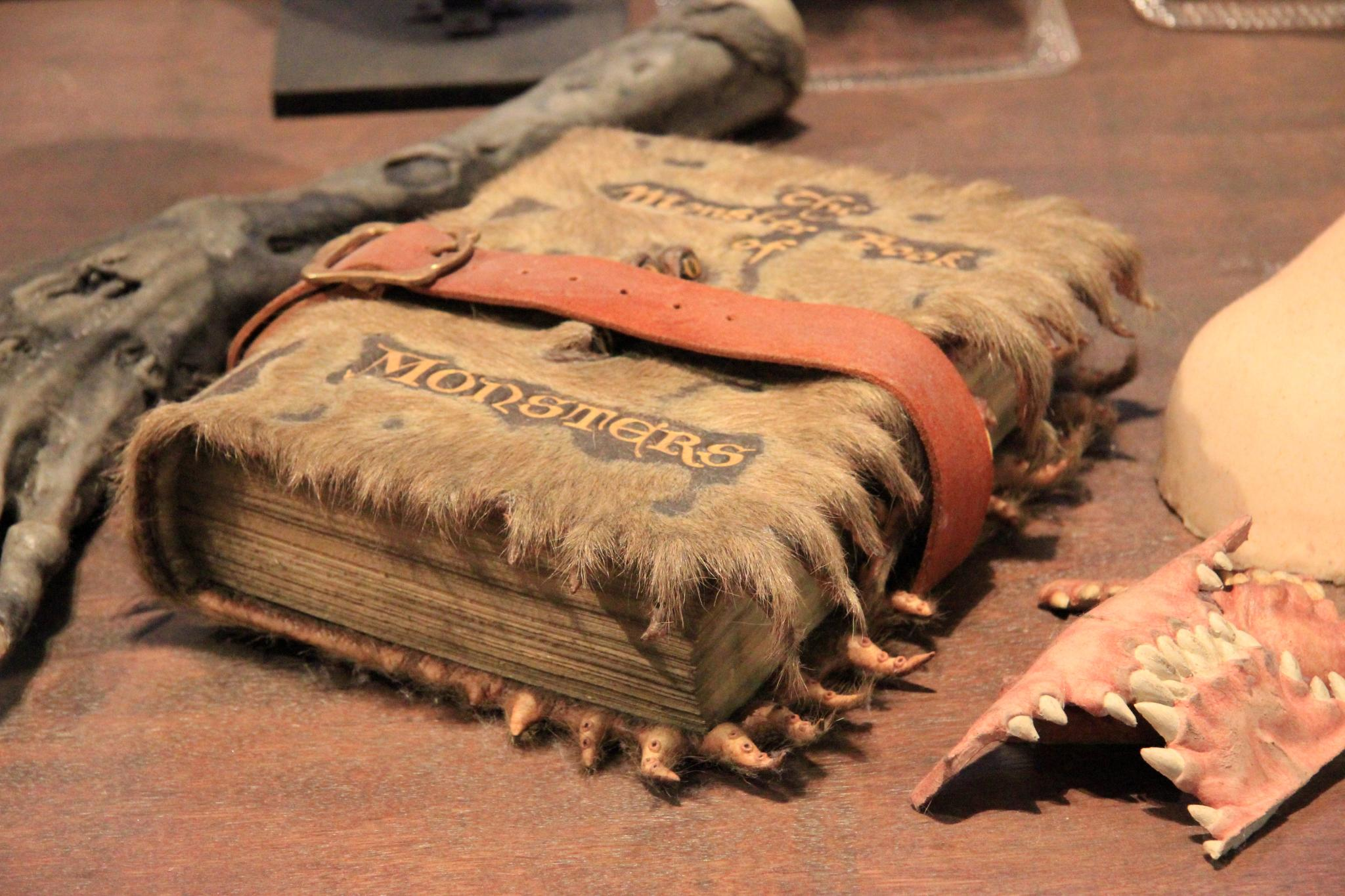 Warner Bros. Studio Tour London: The Making of Harry Potter.